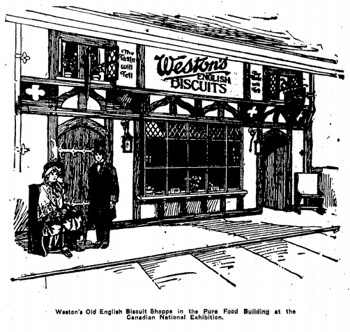 Illustration included in an advertisement for the Weston's Biscuits display in the Pure Food Building of the Canadian National Exhibition, 1923.